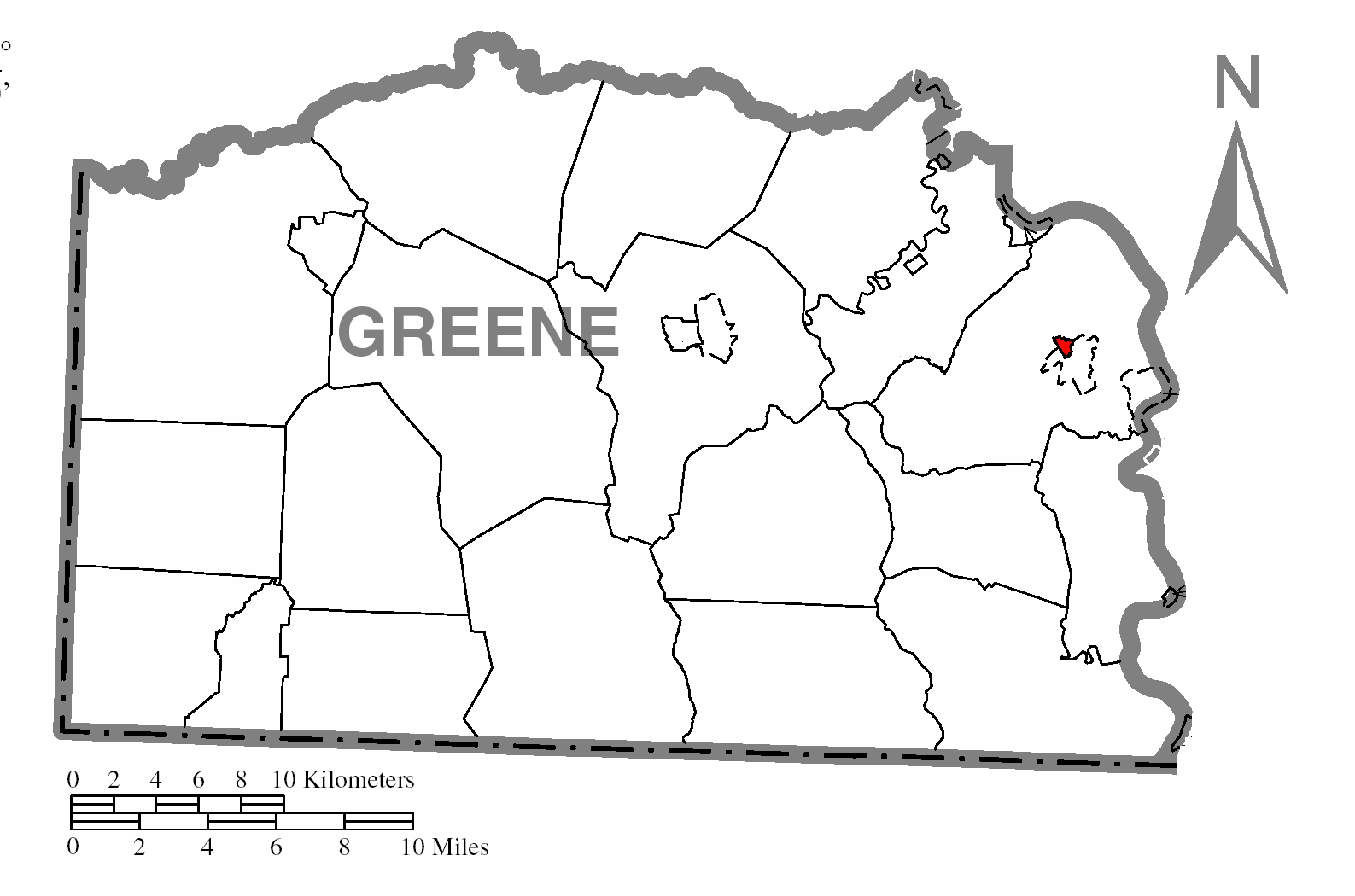 Map of Greene County higlighting Carmichaels.